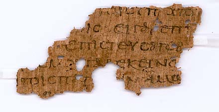 A fragment of the Egerton Gospel. Papyrus collection of the University of Cologne, Papyrus Köln 255 (P. Köln 255 or P. Köln VI 255).